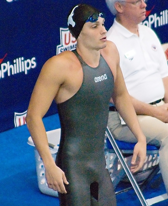 American swimmer Eric Shanteau wearing Arena swimsuit at the 2009 US World Championnships Trials (Indianapolis)